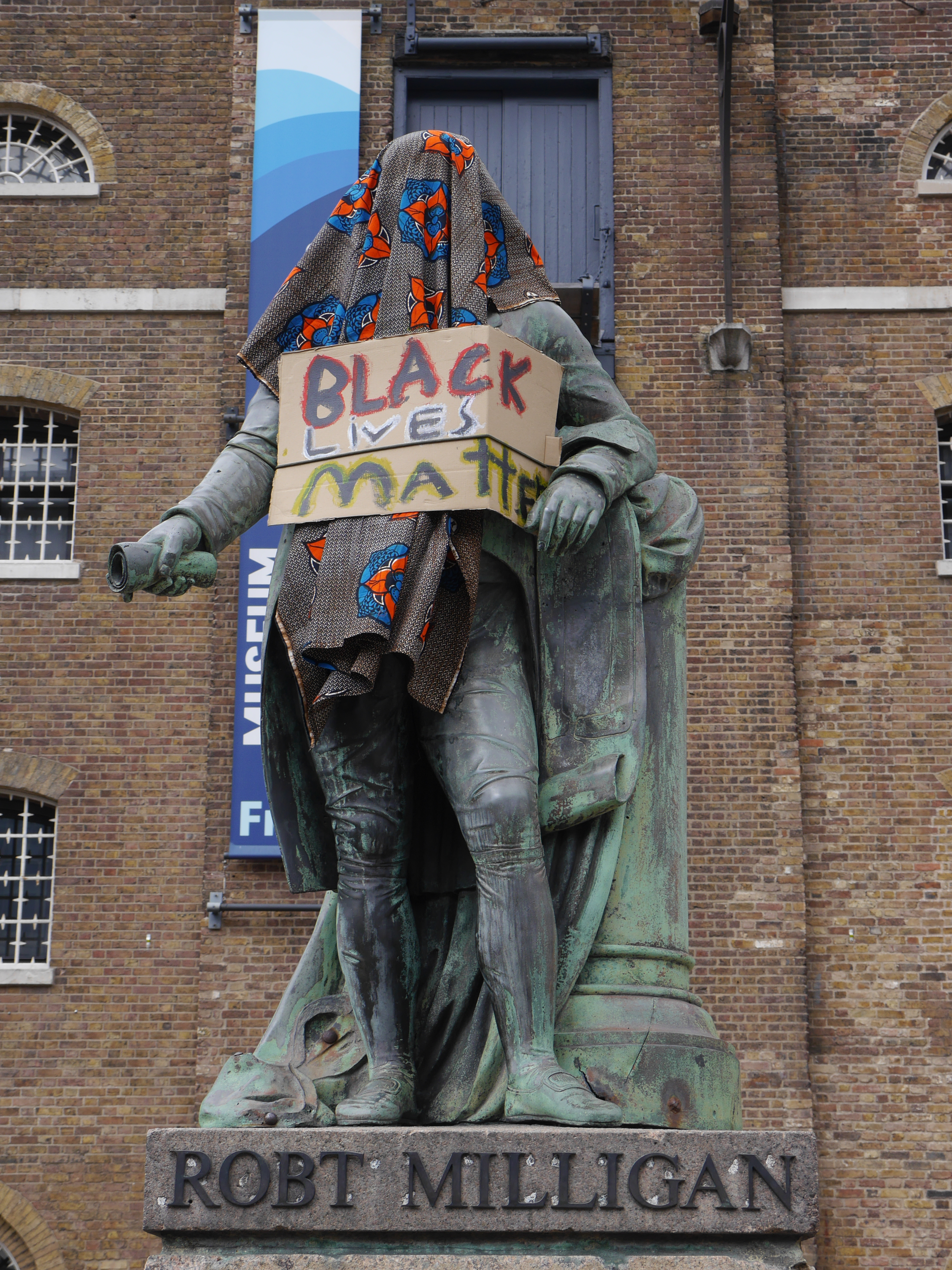 The Statue of Robert Milligan outside the Museum of London Docklands on 9 June 2020. The statue has been covered by a rug or blanket and is holding a cardboard sign saying "Black Lives Matter" Taken on 9 June 2020